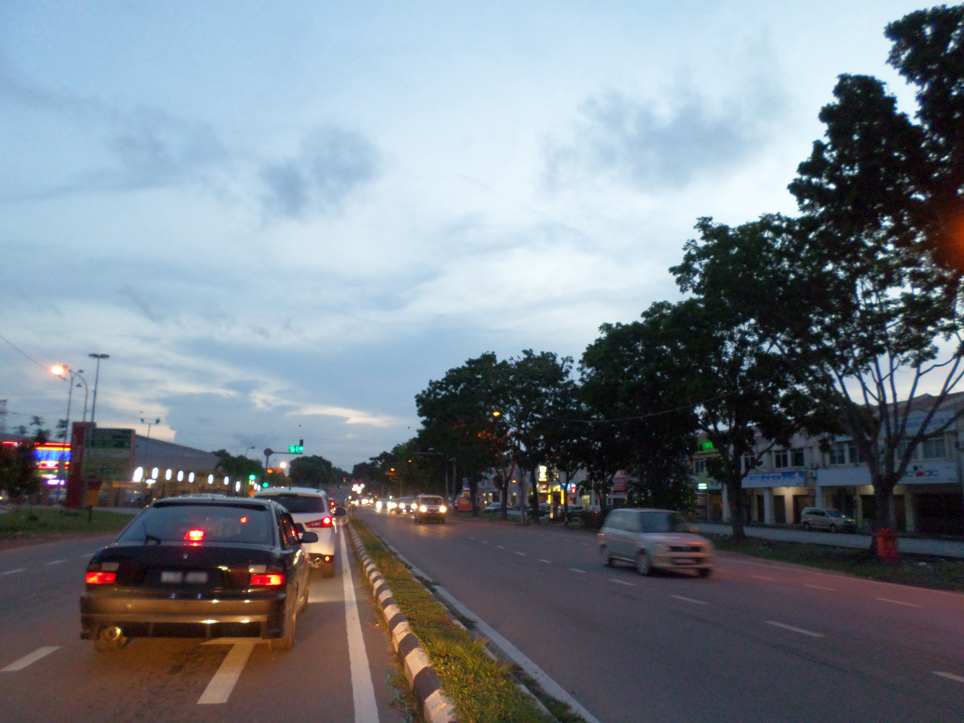 Cheng, Malacca, MalaysiaBahasa Melayu: Cheng, Melaka, Malaysia